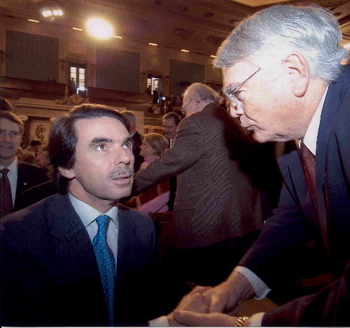 Congressman Terry Everett with Spanish Prime Minister José María Aznar on February 4, 2004